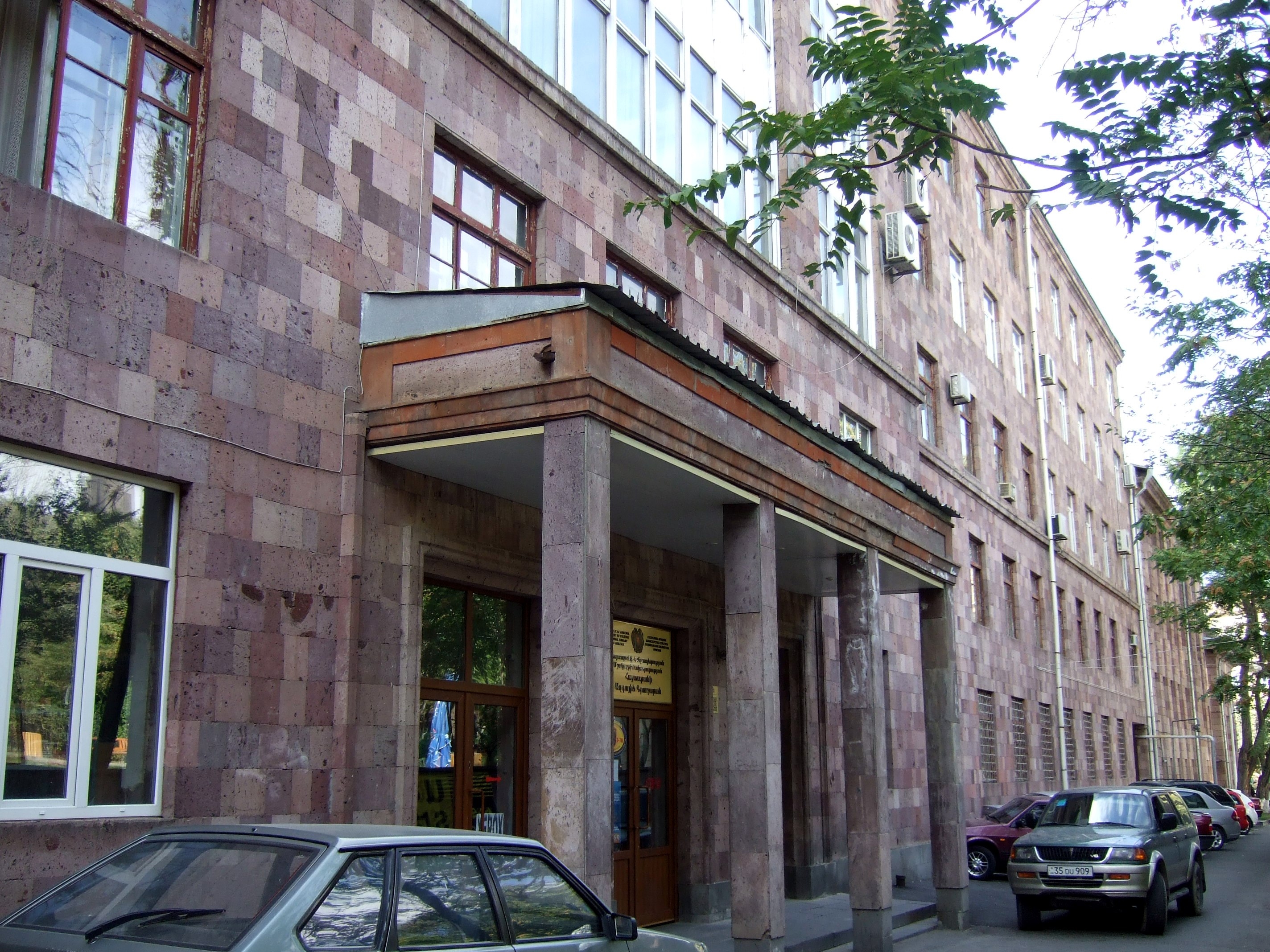 National Library of Armenia 6/66